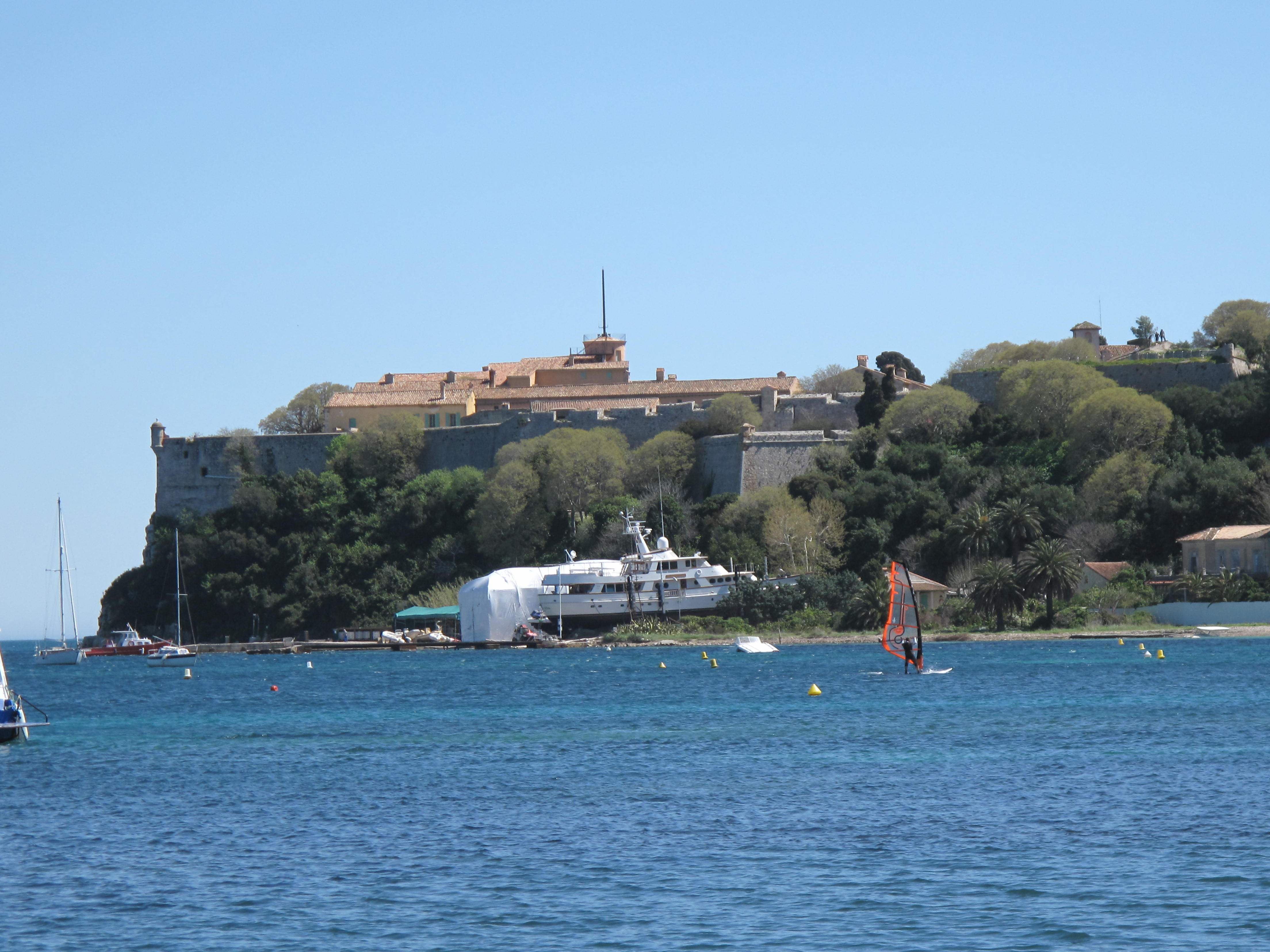 The fort-Royal of the Sainte-Marguerite island (Alpes-Maritimes, France) and the small shipyard of the island.